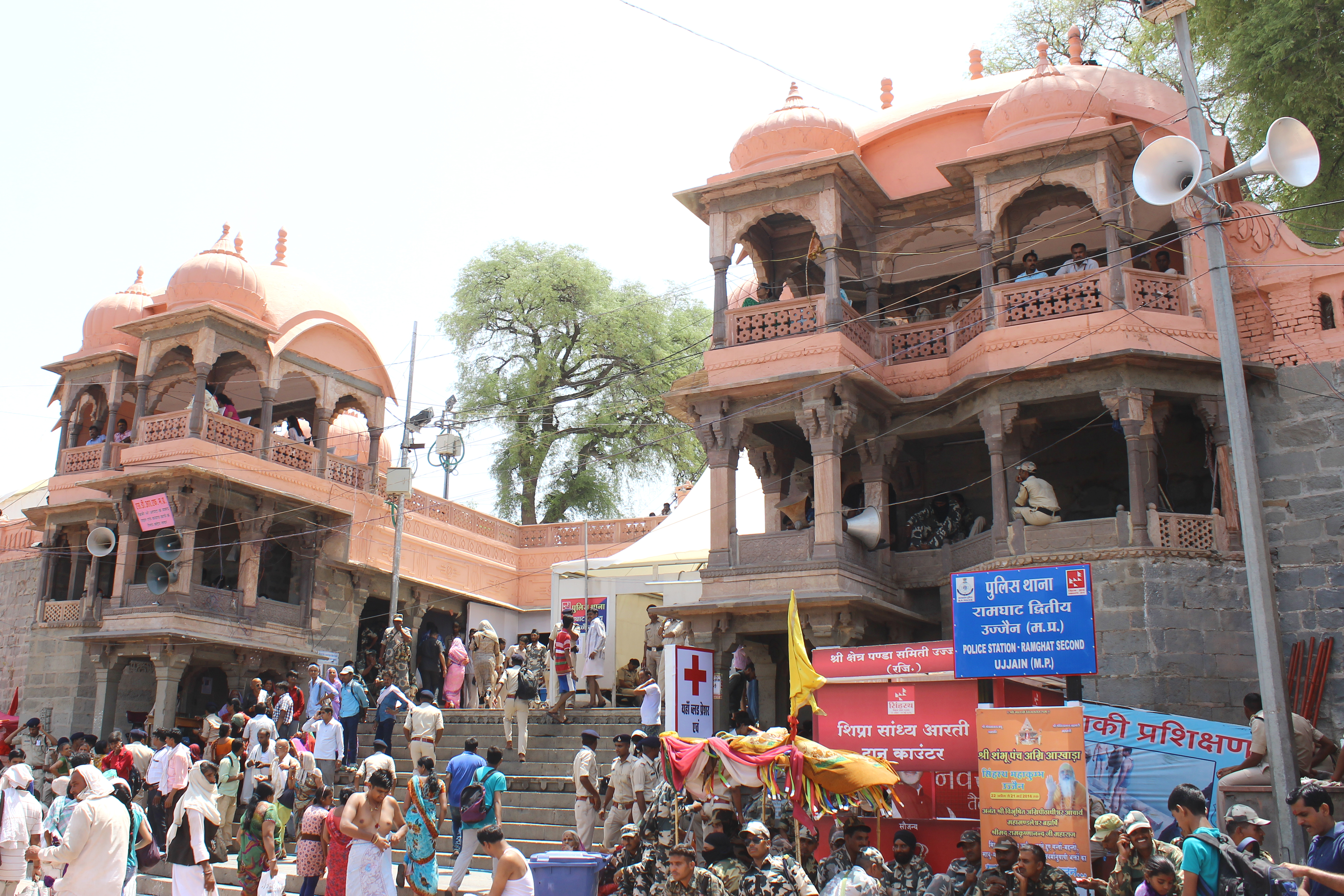 Ujjain Simhasth 2016 Most Important Ram Ghat